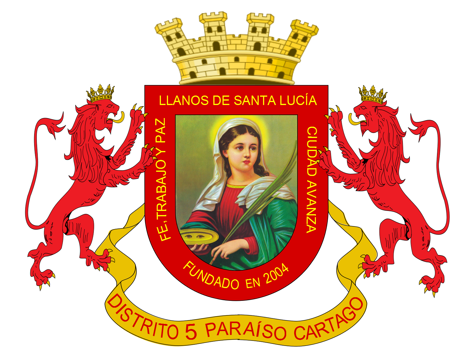 District Official Coat of Llanos de Santa Lucia. This is the original District Coat, as seen since 2011 and by agreement of the District Council of Llanos de Santa Lucía and the District 5 Civic Association, the latter make a grant of 1000 U.S. dollar to improve the original District coat. This year, 2014, our fifth district of Paraíso of Cartago, Llanos de Santa Lucía, is celebrating its tenth anniversary, and it's when starts a huge city marketing campaign. Thanks to all the citizens that helped to the design of this Coat of District thru the last five years, thanks indeed!